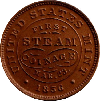 Medal struck for the first steam coinage at the United States Mint at Philadelphia. This is a 20th century restrike, as the Treasury sold these until it took most old medals off sale at the end of 1985.